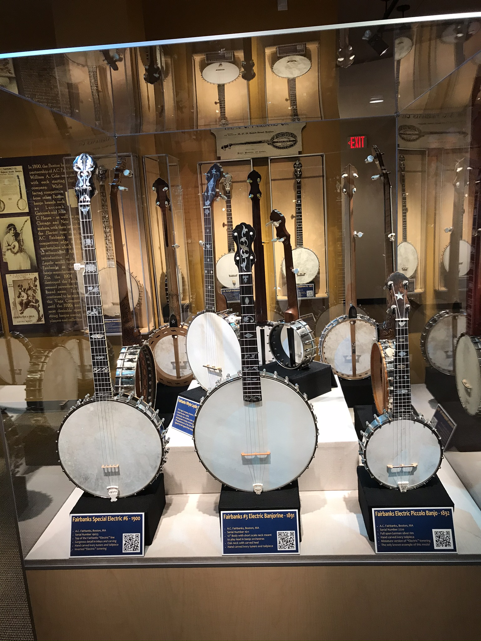 Fairbanks Special Electric #6 banjo (1900), Fairbanks #3 Electric Banjorine (1891), Fairbanks Electric Piccolo Banjo (1892) at American Banjo Museum